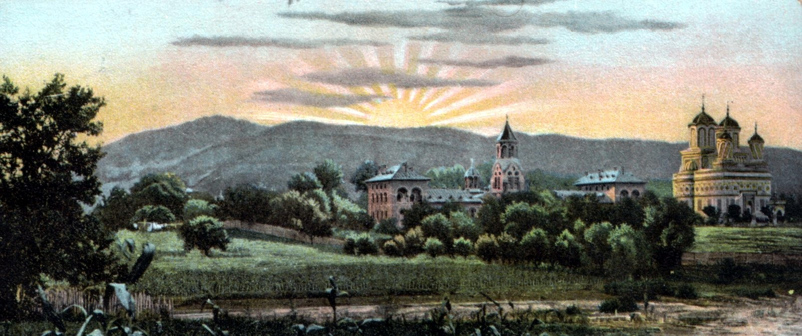 Curtea de Arges monastery, in Romania